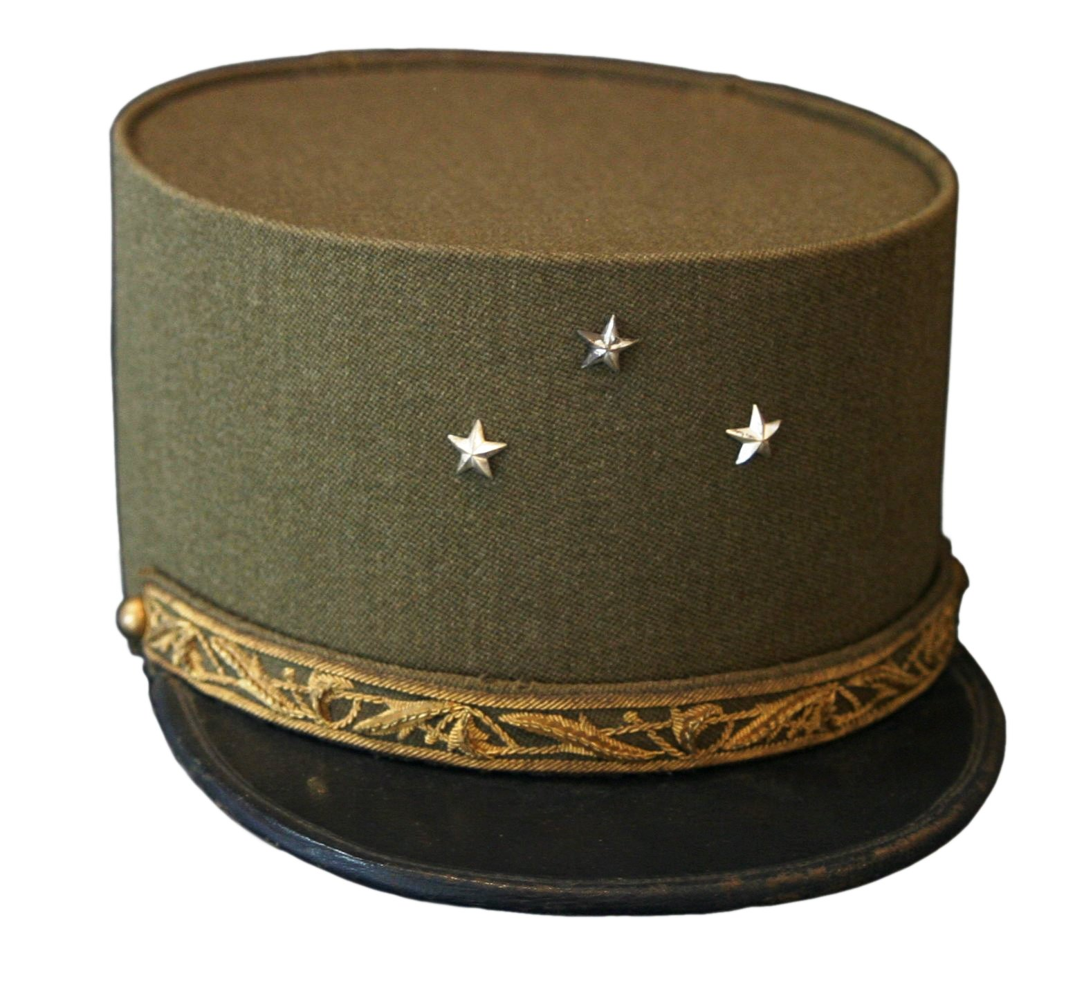 This image was taken at the Musée de l'Armée, Paris.